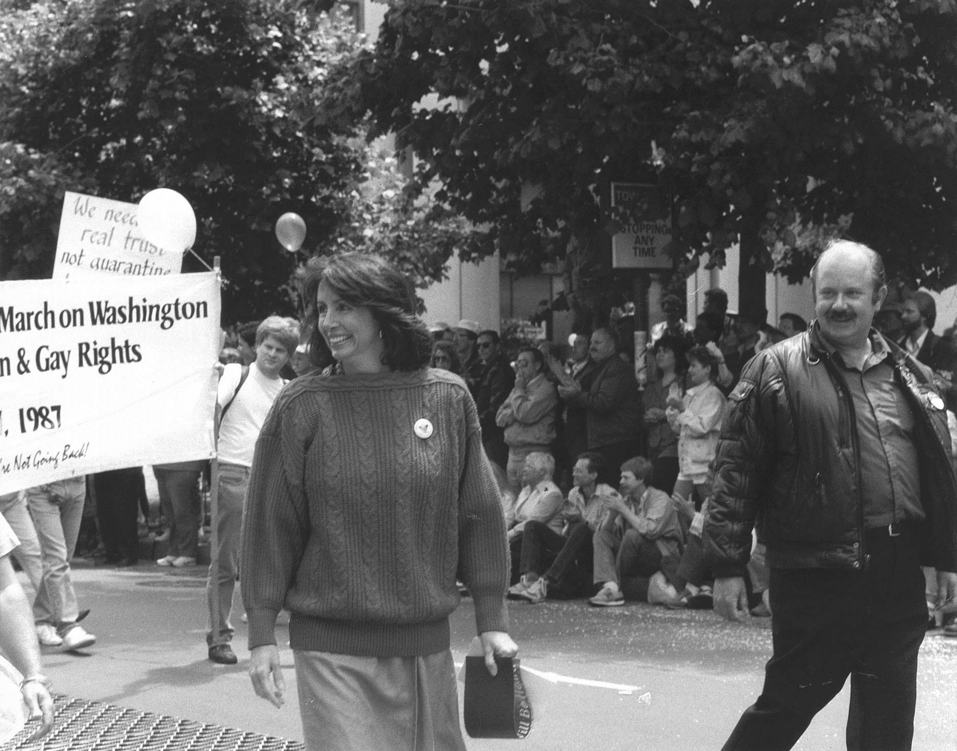 Congresswoman Pelosi, pictured proudly marching for equal rights in 1987, celebrates the Supreme Court decisions striking the discriminatory Defense of Marriage Act and allowing marriage equality for all California families.